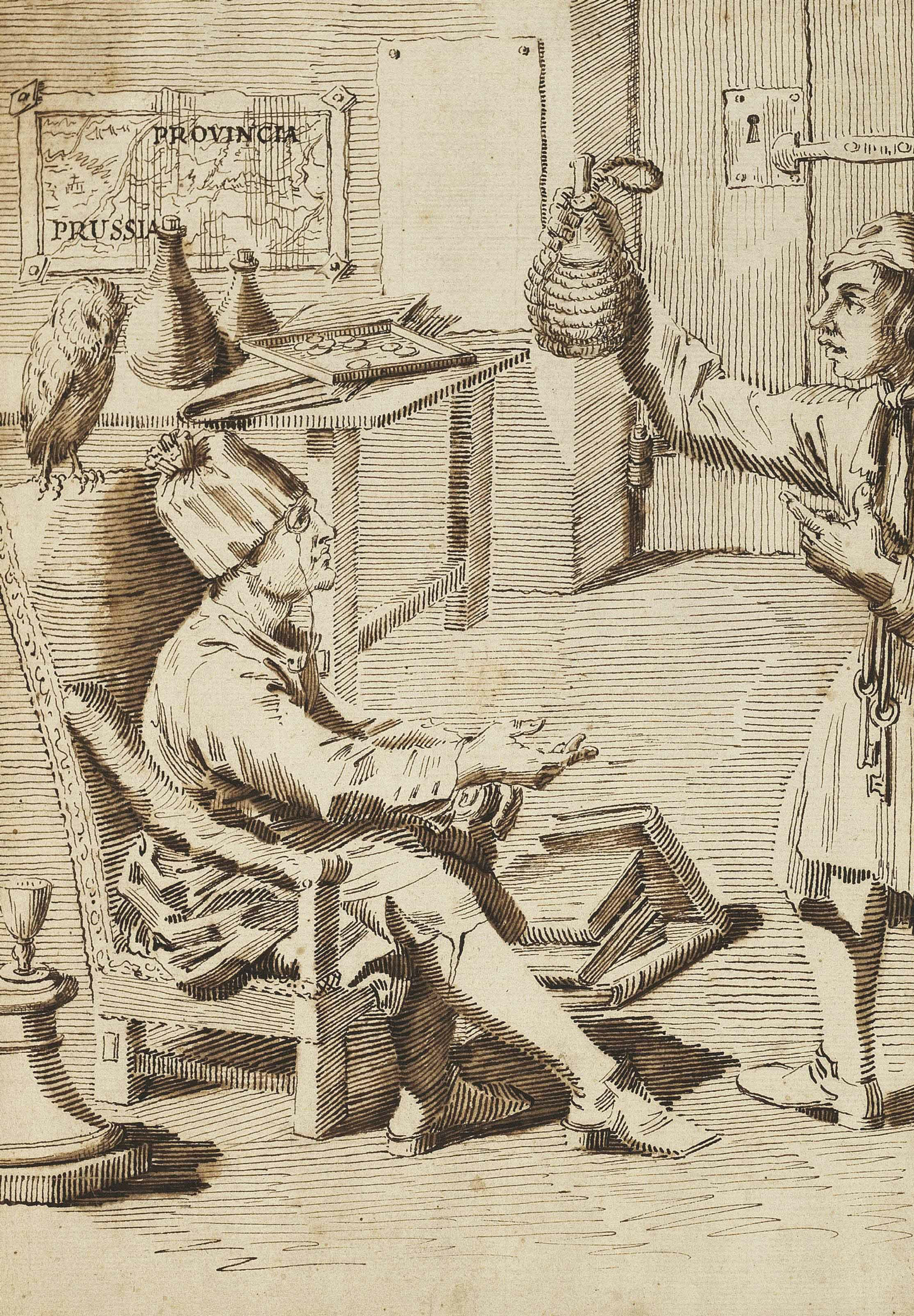 Philipp von Stosch (1691-1757) in his study with a servant holding a flask traces of black chalk, pen and brown ink, brown wash 30.6 x 21.4 cm inscribed: PROVINCIA PRUSSIA (on the map)